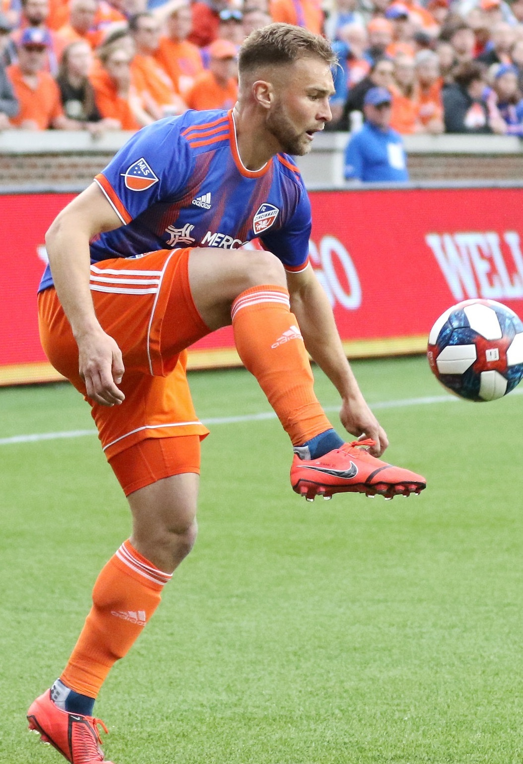 Caleb Stanko plays in FC Cincinnati's match against Sporting Kansas City on April 7, 2019.